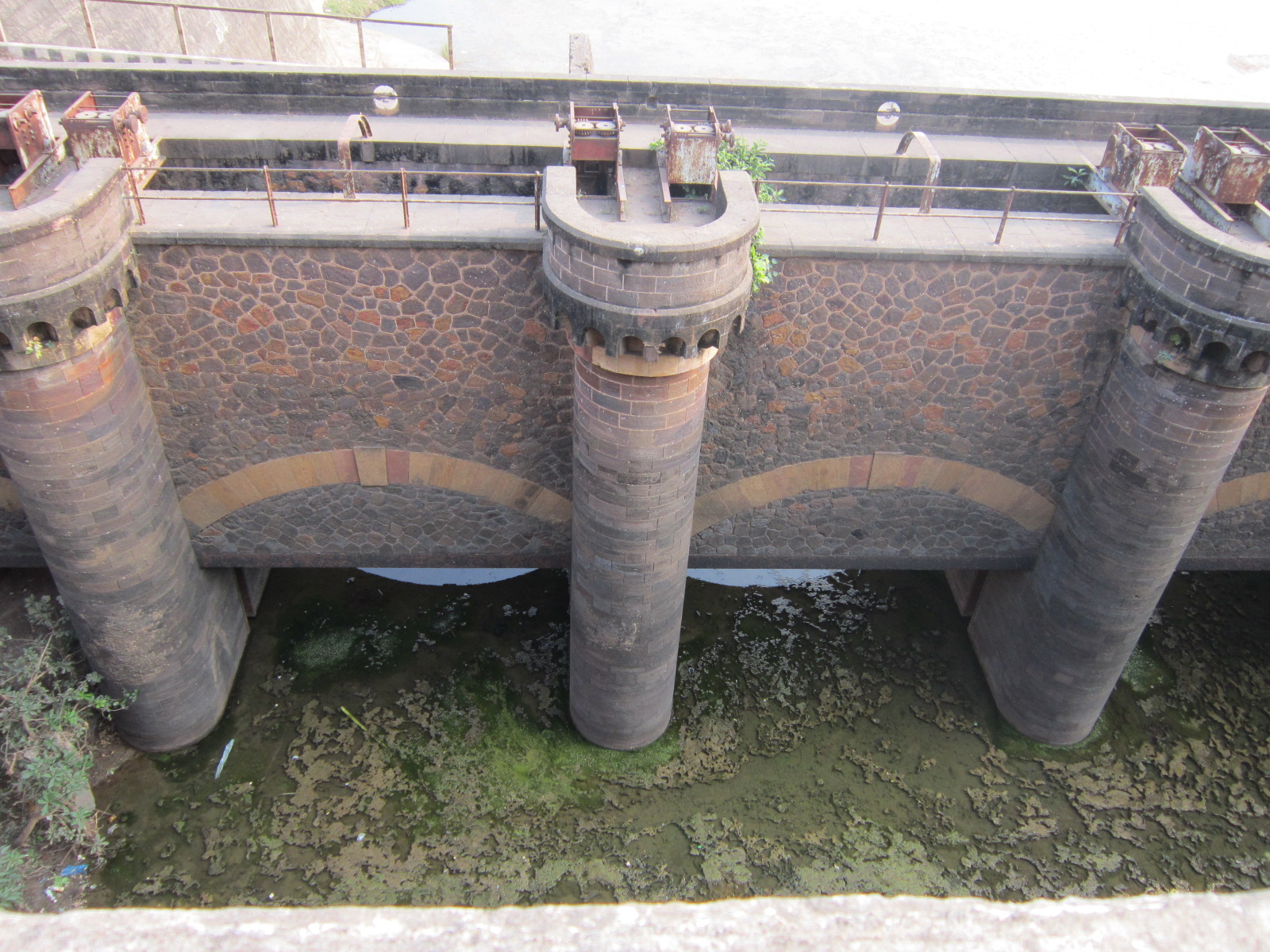 Aqueduct by Sir Arthur Cotton on the River Godavari near Rajamandry